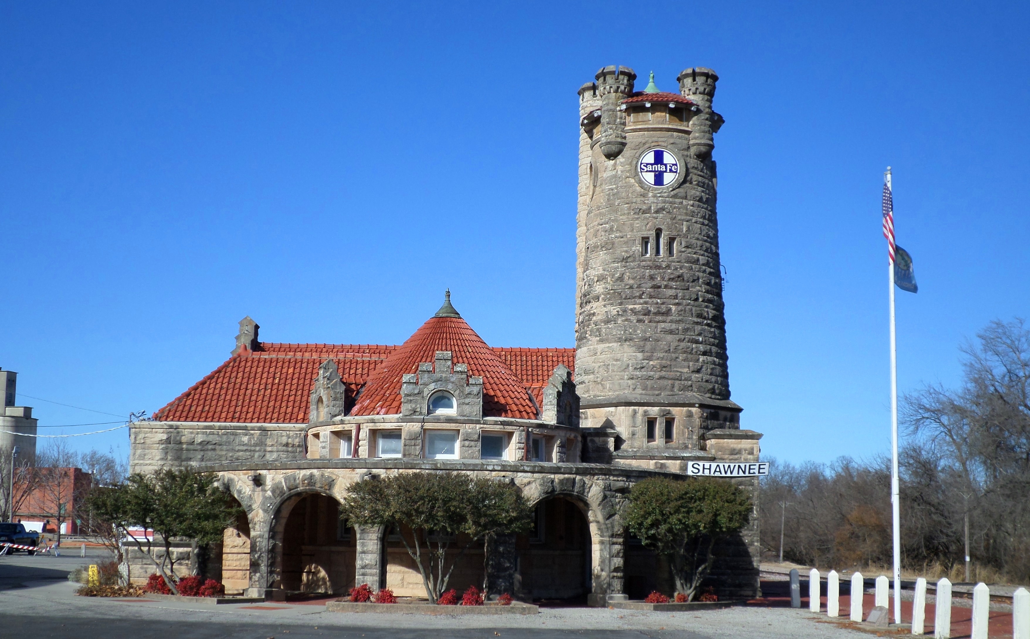 The former Santa Fe Depot, located at 614 E Main St, Shawnee, OK. The building is listed on the National Register of Historic Places and is now used as a museum.